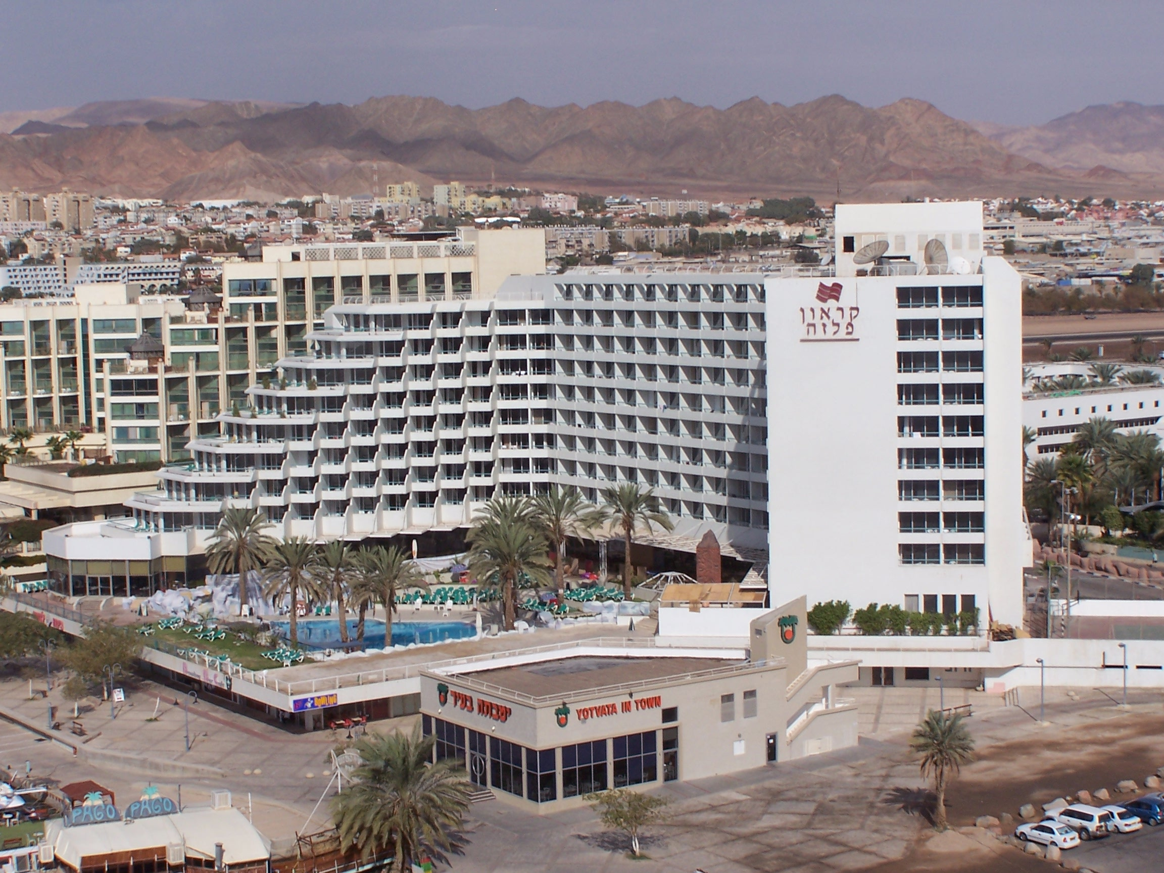 Crowne Plaza Hotel in Eilat, Israel